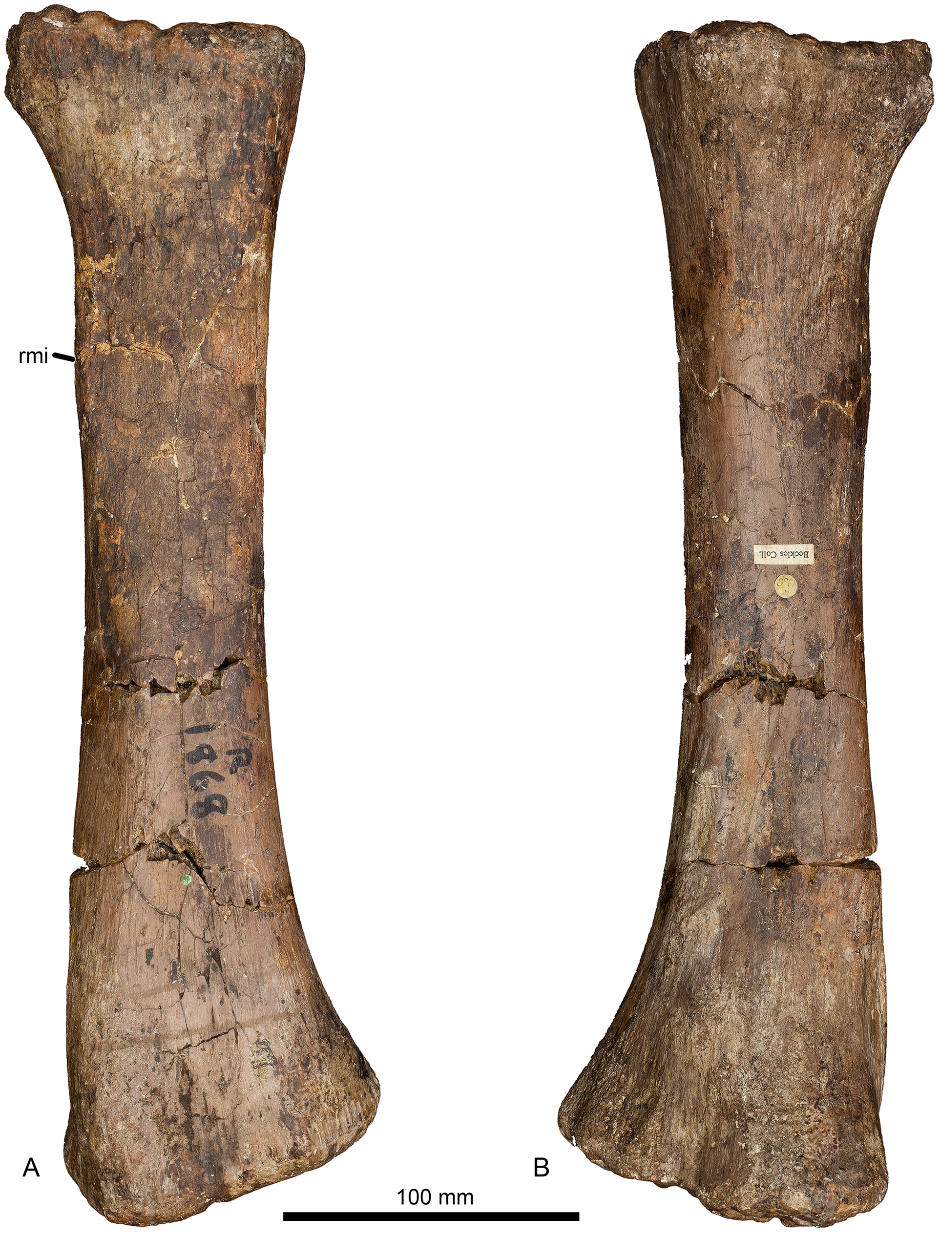 Left radius of Haestasaurus becklesii (NHMUK R1870). A, anterior view; B, posterior view. Abbreviation: rmi, ridge for muscle insertion (for the tendon from the combined M. biceps and M. brachialis inferior).